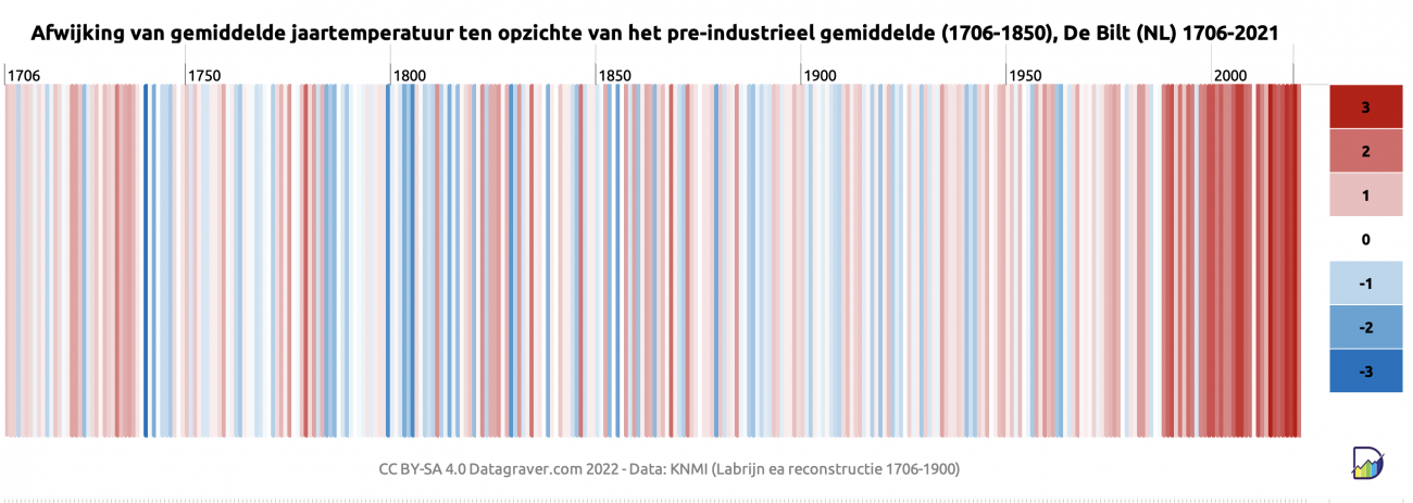 Barcode for yearly temperature deviations from the pre-industrial average in the central Netherlands, 1706-2019, De Bilt (NL). Data: KNMI (Labrijn ea).